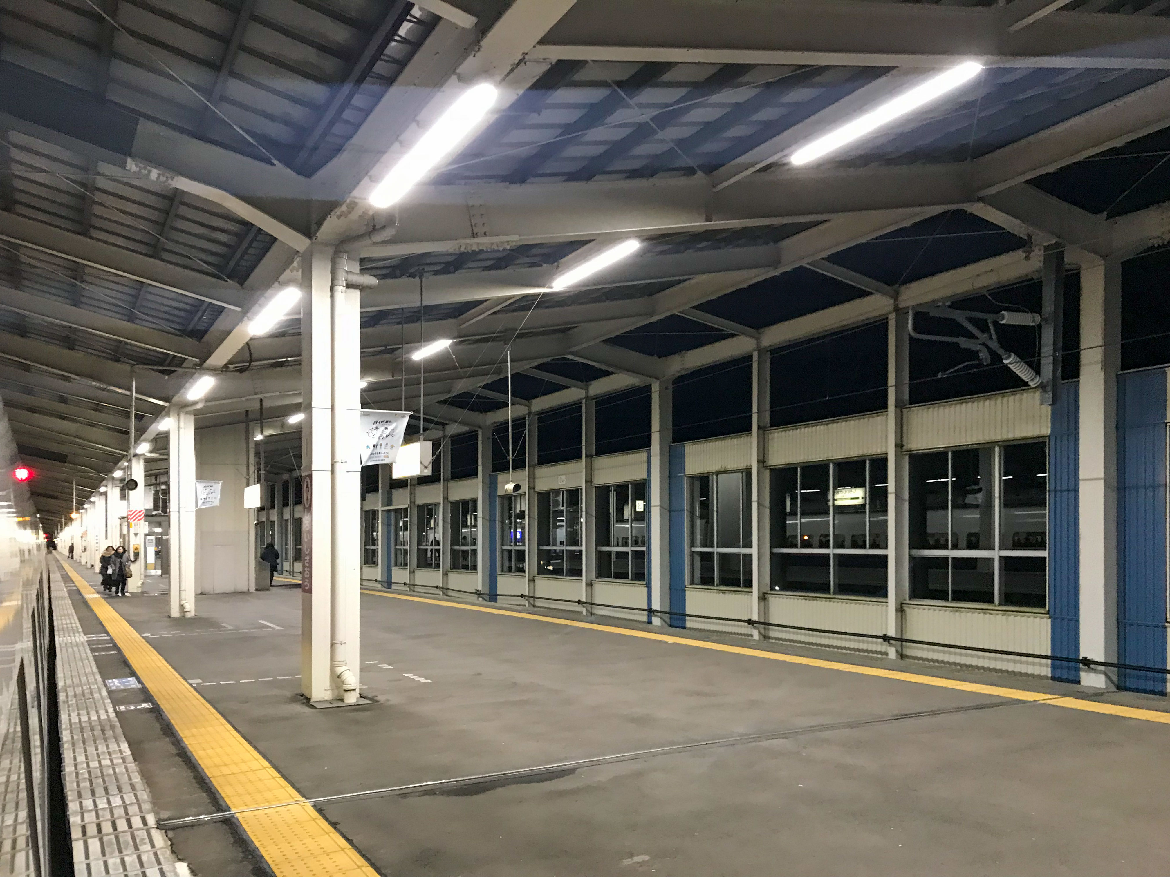 The platform at Shiroishi-Zao Station on the Tohoku Shinkansen in Miyagi Prefecture, Japan